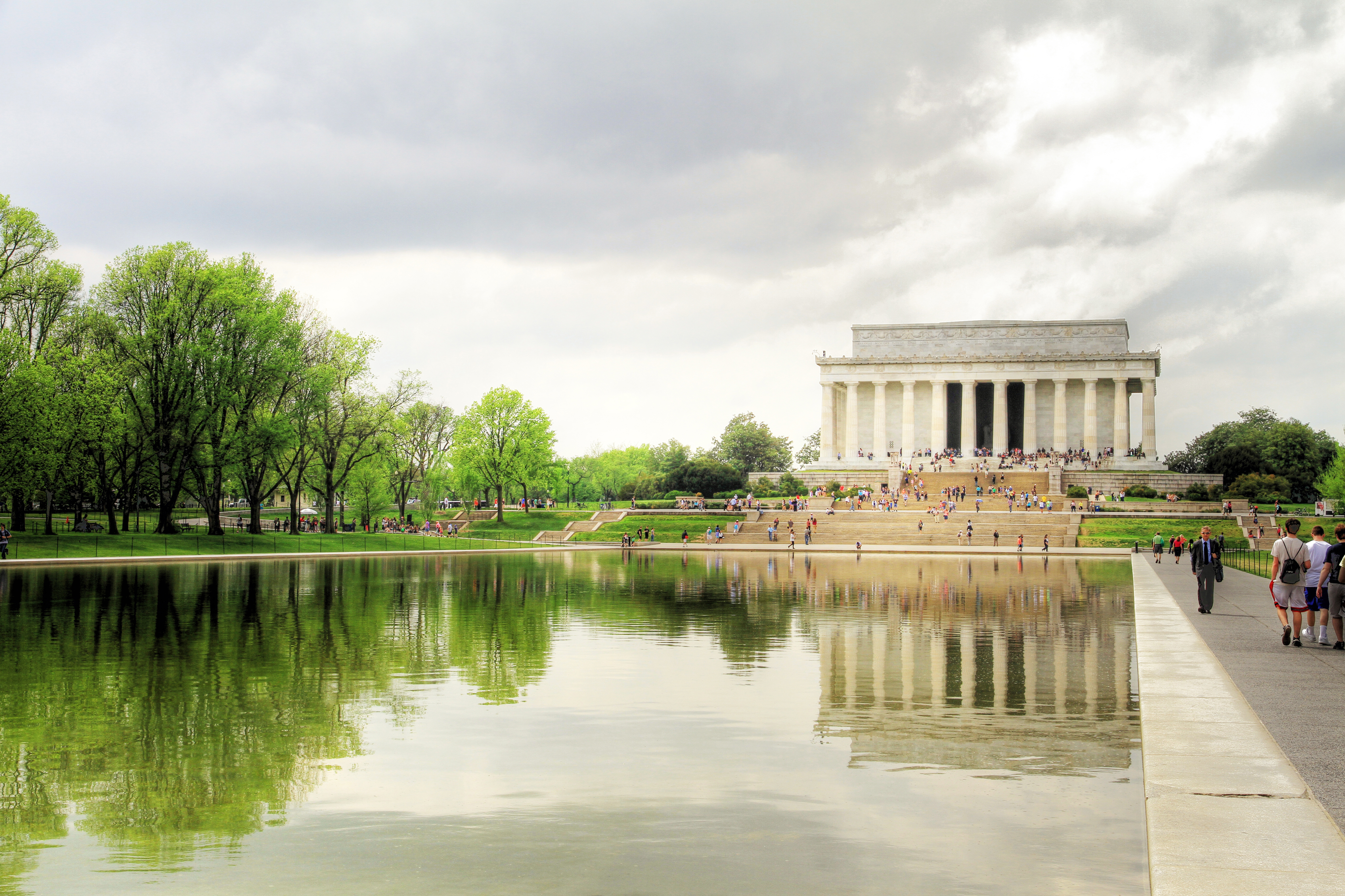 Lincoln Memorial & Reflection Pool